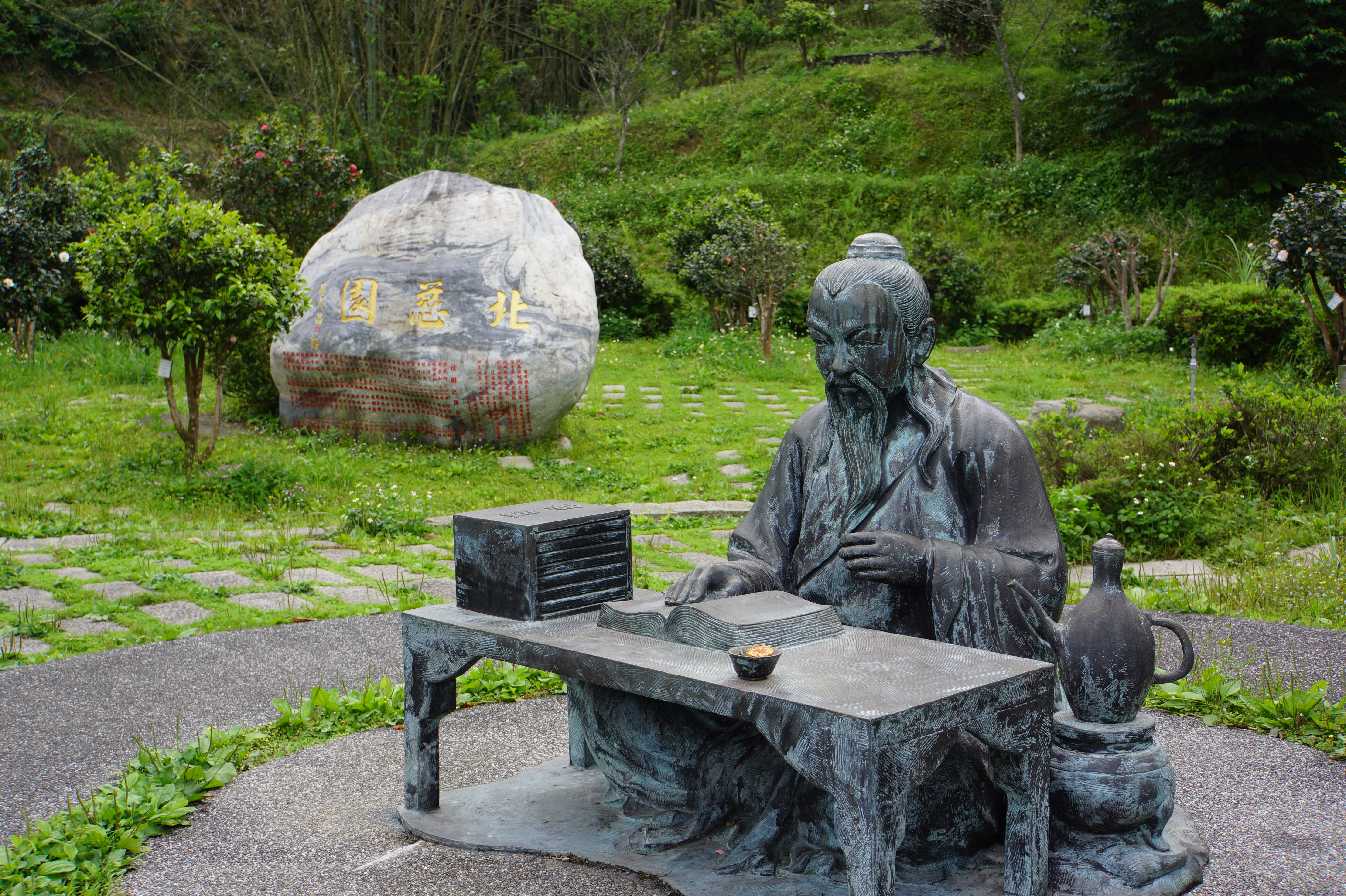 茶神陸羽 Lu Yu the Tea God